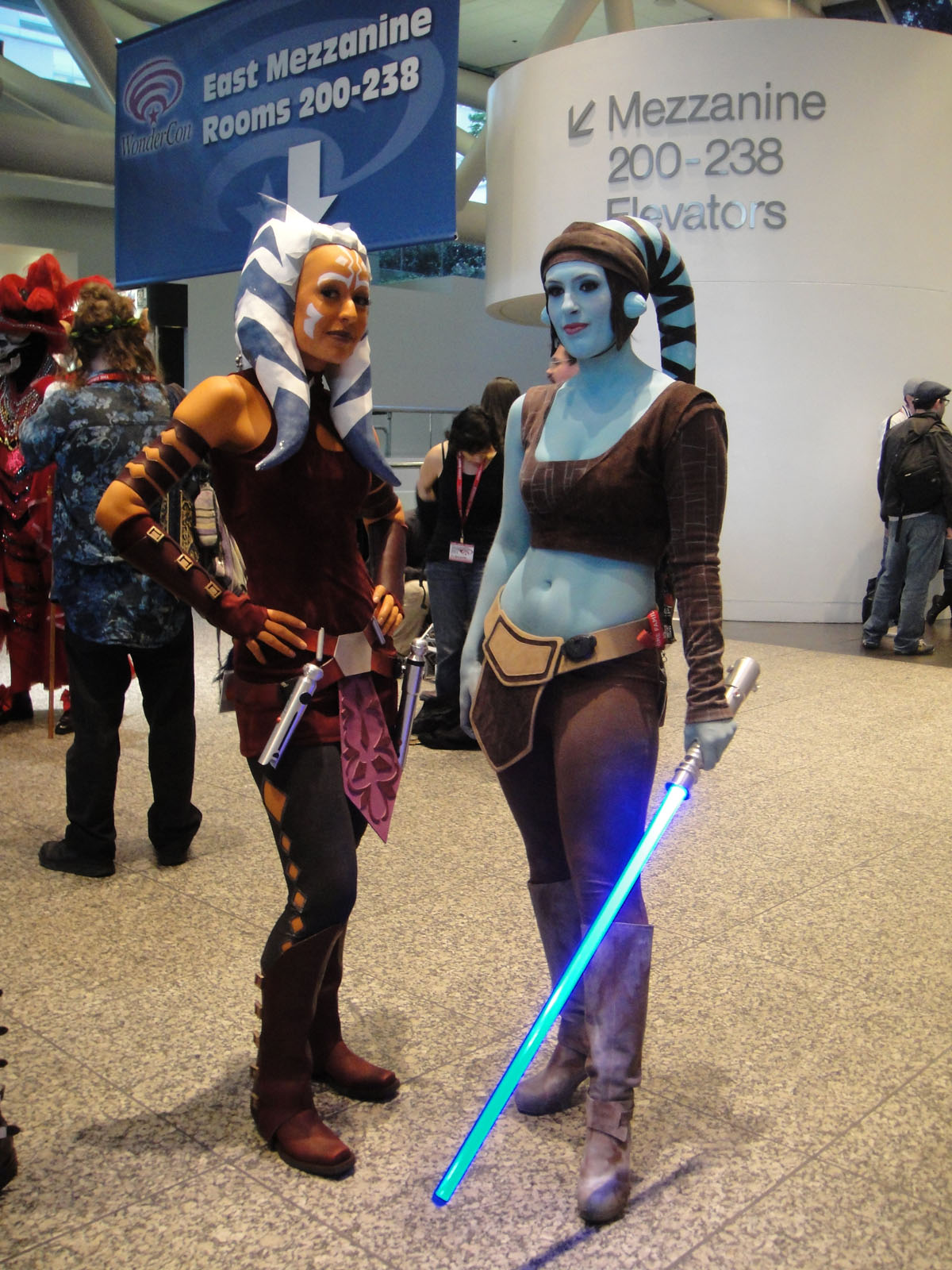 WonderCon 2011 - Ahsoka Tano and Aayla Secura costumes